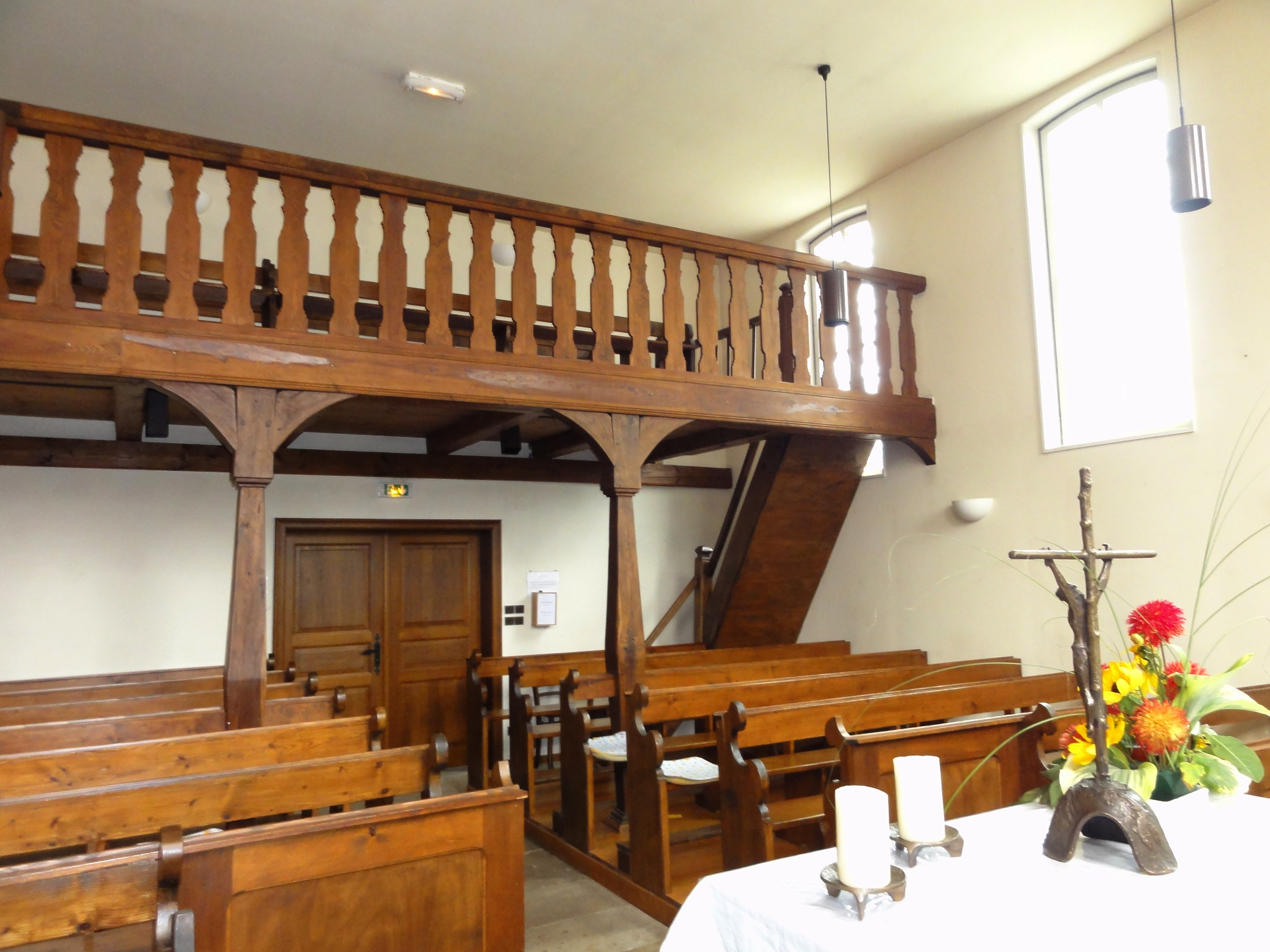 Alsace, Bas-Rhin, Betschdorf-Kuhlendorf, Église protestante, Vue intérieure. It is indexed in the Base Mérimée, a database of architectural heritage maintained by the French Ministry of Culture, under the references PA00084616 and IA00118817 .